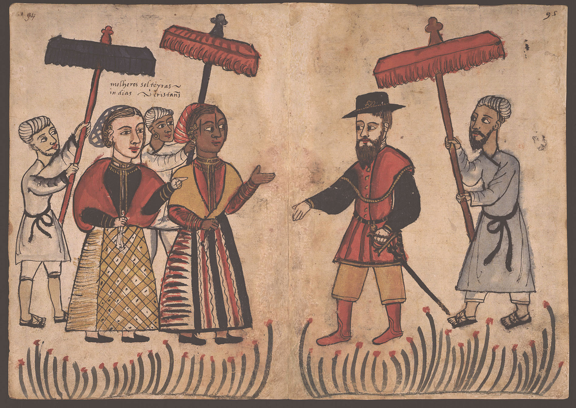 An anonymous 16th century Portuguese illustration depicting single Christian Indian women wearing European fashion and a Portuguese nobleman of India, presumably proposing. The inscription reads "Single Indian women. Christians".